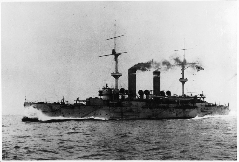 Japanese cruiser Asama, Russo-Japanese war